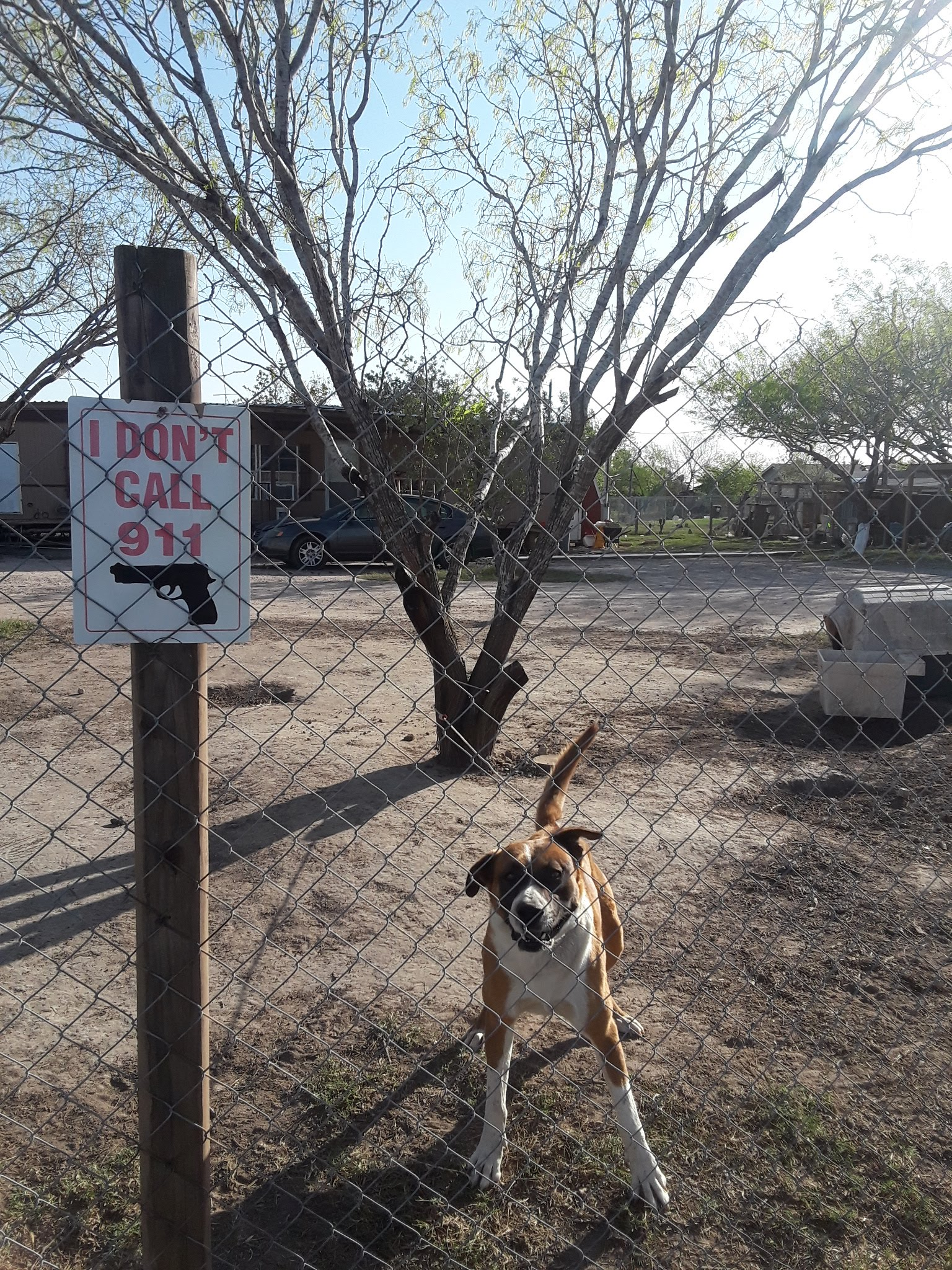 dog guarding a yard in south texas